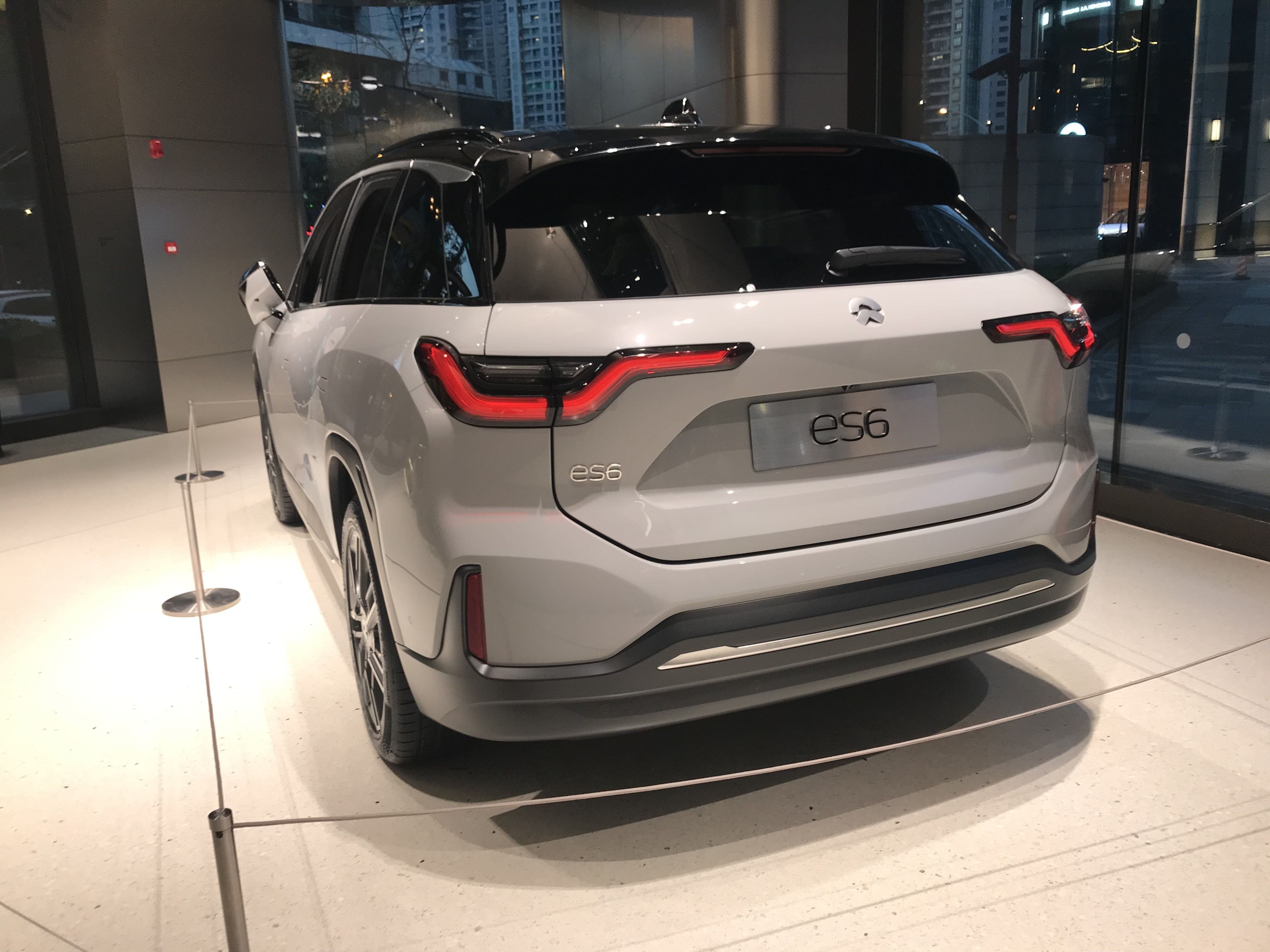 Nio ES6